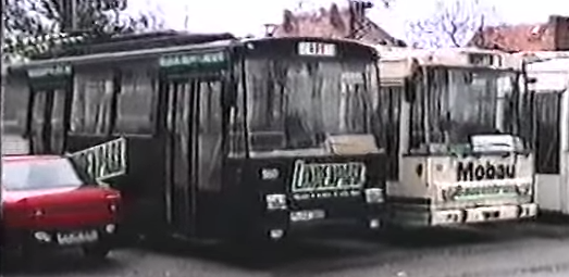 2 Skoda trolleybuses of Potsdam in the depot